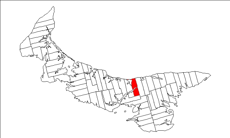 Public domain map of Prince Edward Island created by User:Plasma east with data courtesy of Geogratis, modified to show townships. Released under GFDL (self).